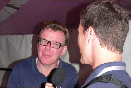 Andrew Marston introduces The Proclaimers backstage at the Big Chill Festival 2006